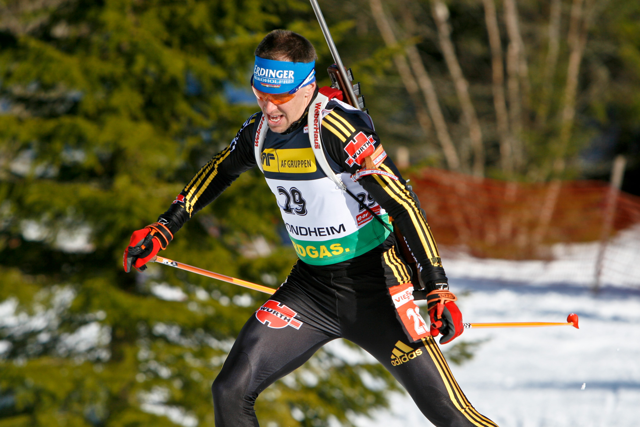 Todays winner. 1st place. IBU World Cup Biathlom Trondheim 19 March 2009. The license on this photo was changed on 15 February 2010 from All rights reserved to Creative Commons (CC-BY-SA). At the same time, a bigger version (2100x1400px) of the photo replaced the old one. If you use this picture, remember to give credit according to the license (